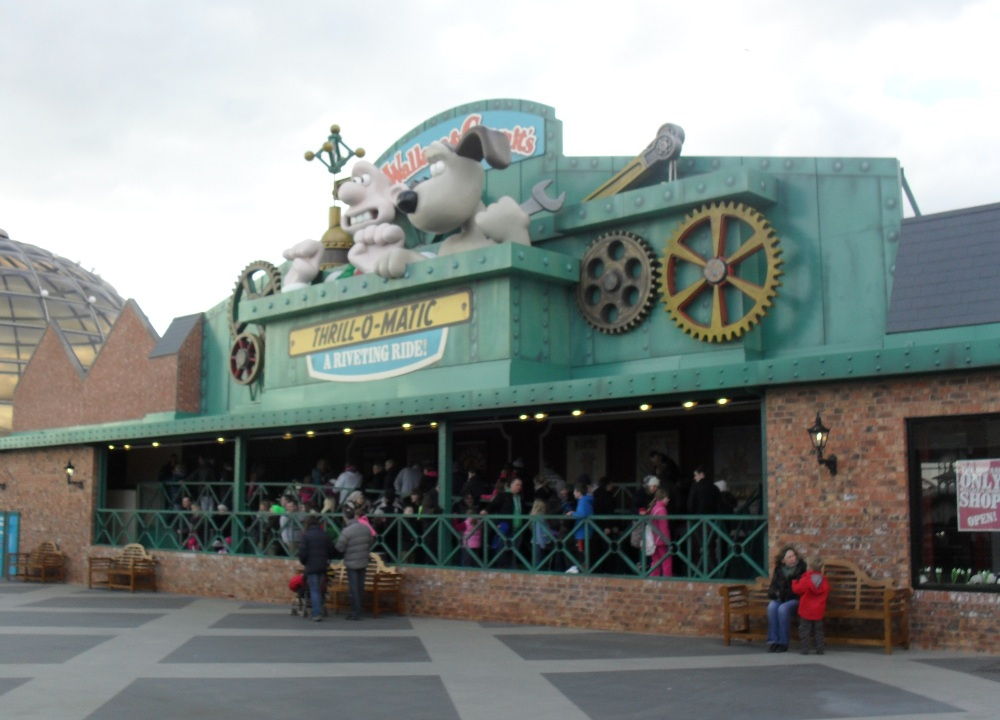 Wallace & Gromit's Thrill-O-Matic (Pleasure Beach Blackpool, England, United Kingdom)